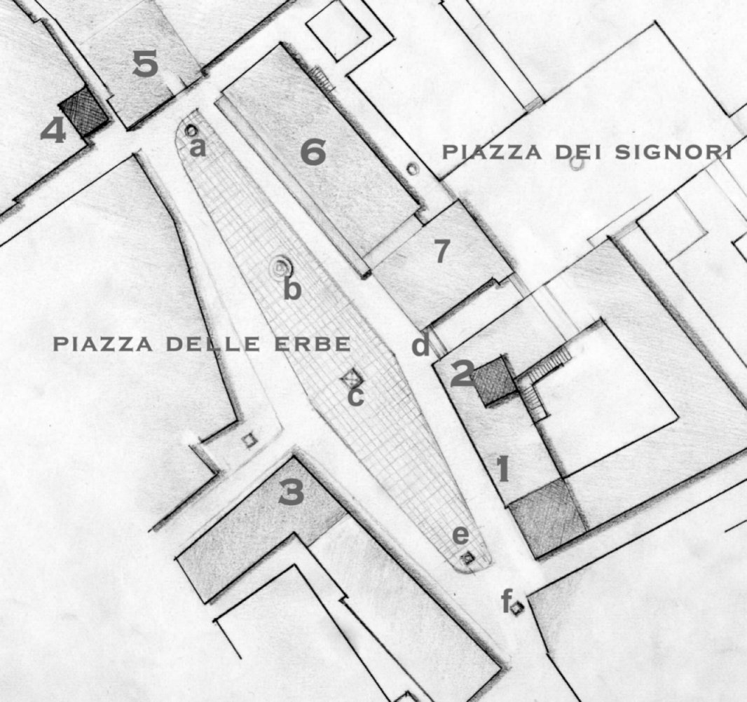 The Plan of the Piazza delle Erbe